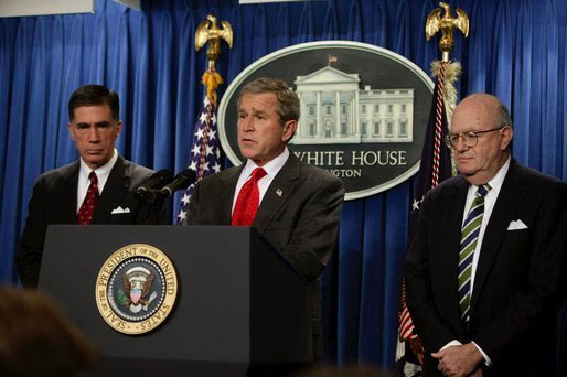 President George W. Bush holds a press briefing at the White House Friday, February 6, 2004. "Today, by executive order, I am creating an independent commission, chaired by Governor and former Senator Chuck Robb (left), Judge Laurence H. Silberman (right), to look at American intelligence capabilities, especially our intelligence about weapons of mass destruction," said the President. White House photo by Paul Morse.